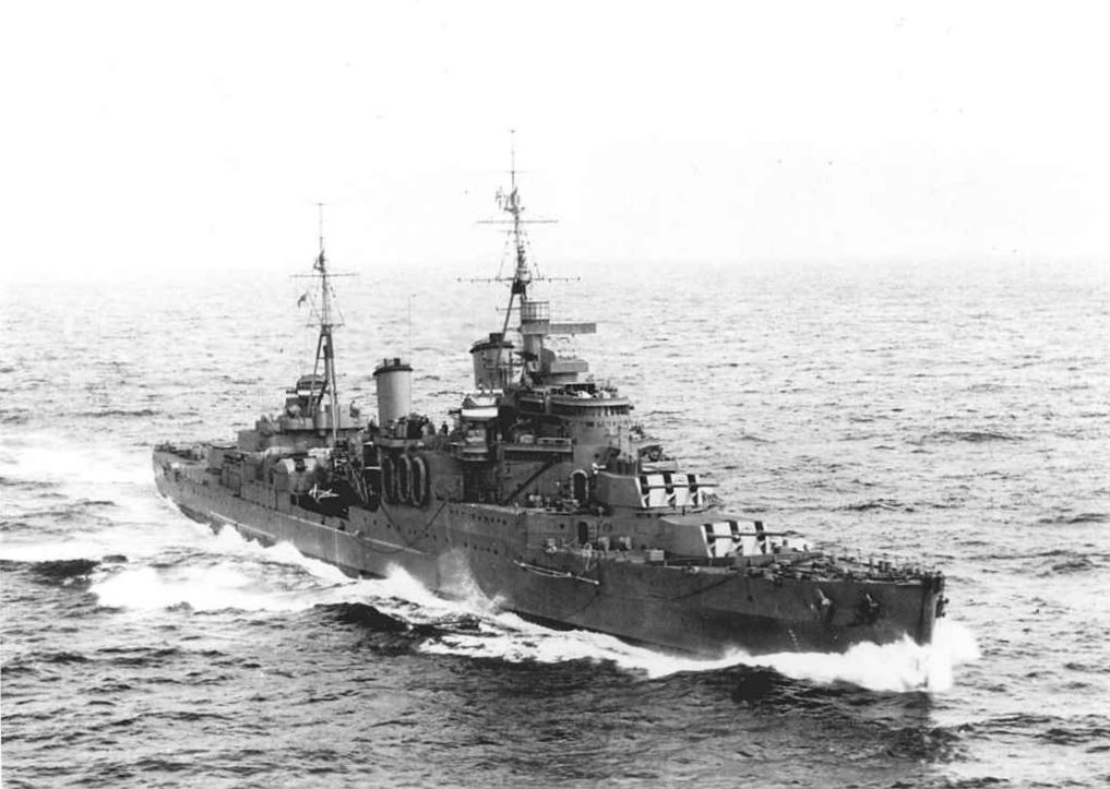 Aerial photograph of British cruiser HMS Manchester (C15).